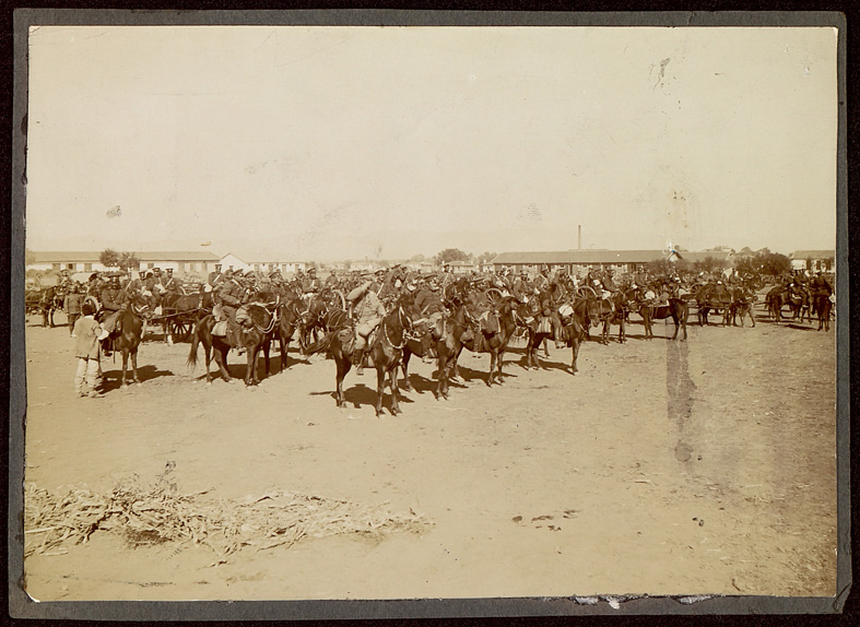 4th Artilery Regiment (Kingdom of Bulgaria) in World War I (1914 - 1918)